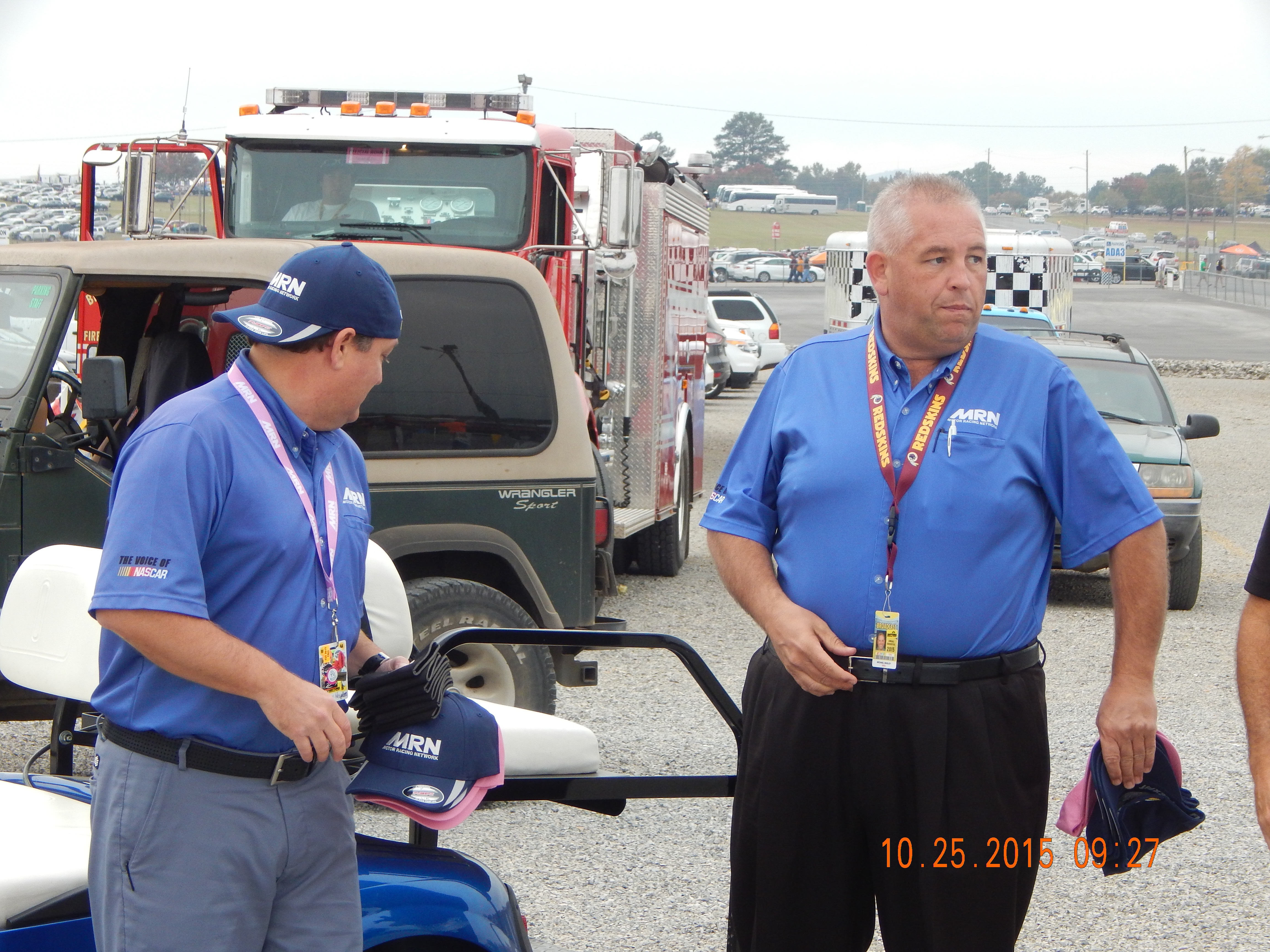 MRN radio's Mike Bagley at Talladega Superspeedway